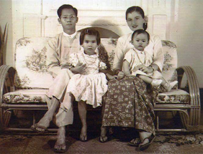 Sao Kya Seng, the last Saopha of Hsipaw State, Burma from 1947 to 1959, and his family.